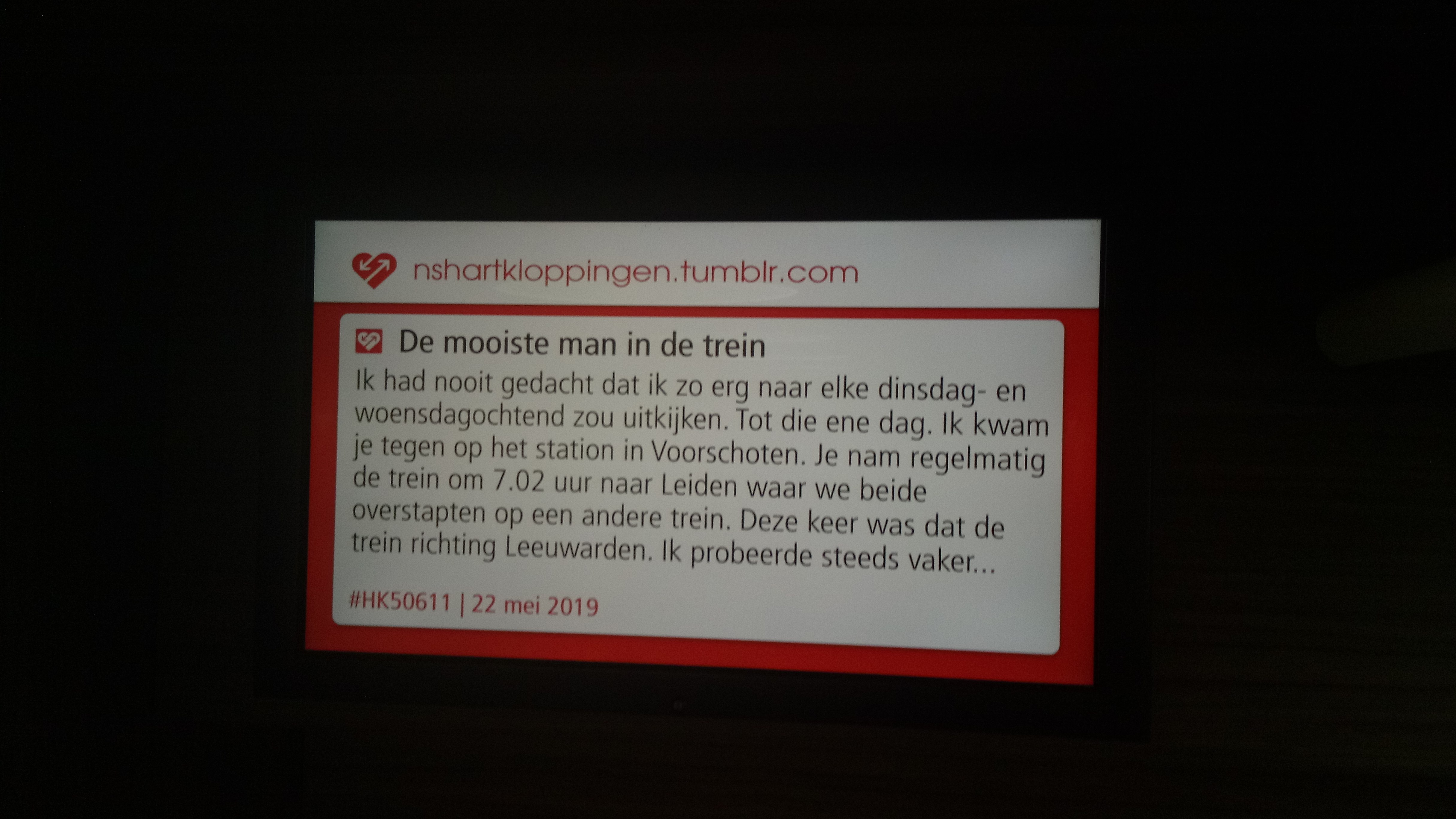 An informational screen inside of AN NS train stationed at the central train station of the city of Utrecht displaying a short Tumblr blog post.